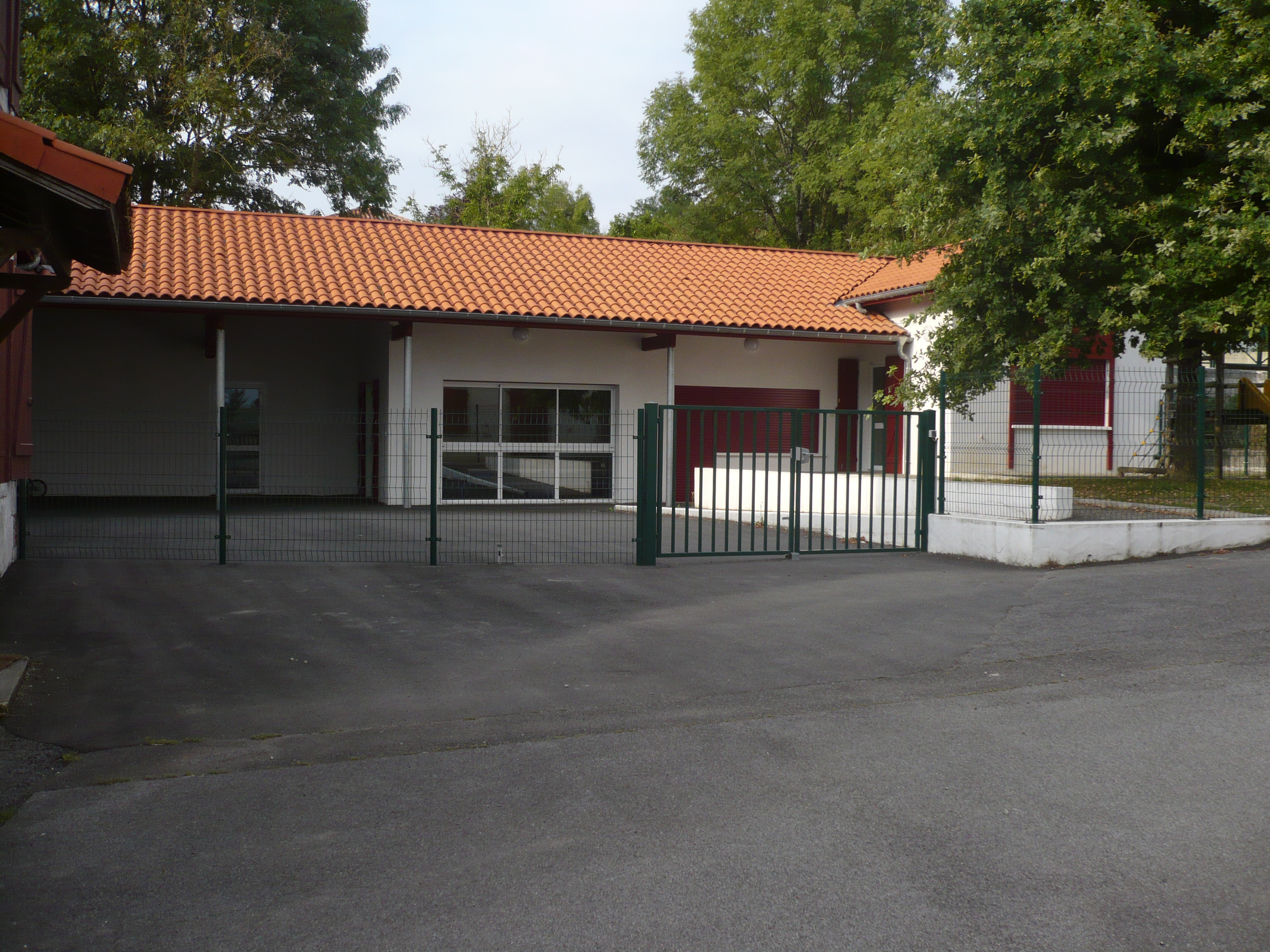 School in Arboti (fr Arbouet), Lower Navarre, Basque Country.